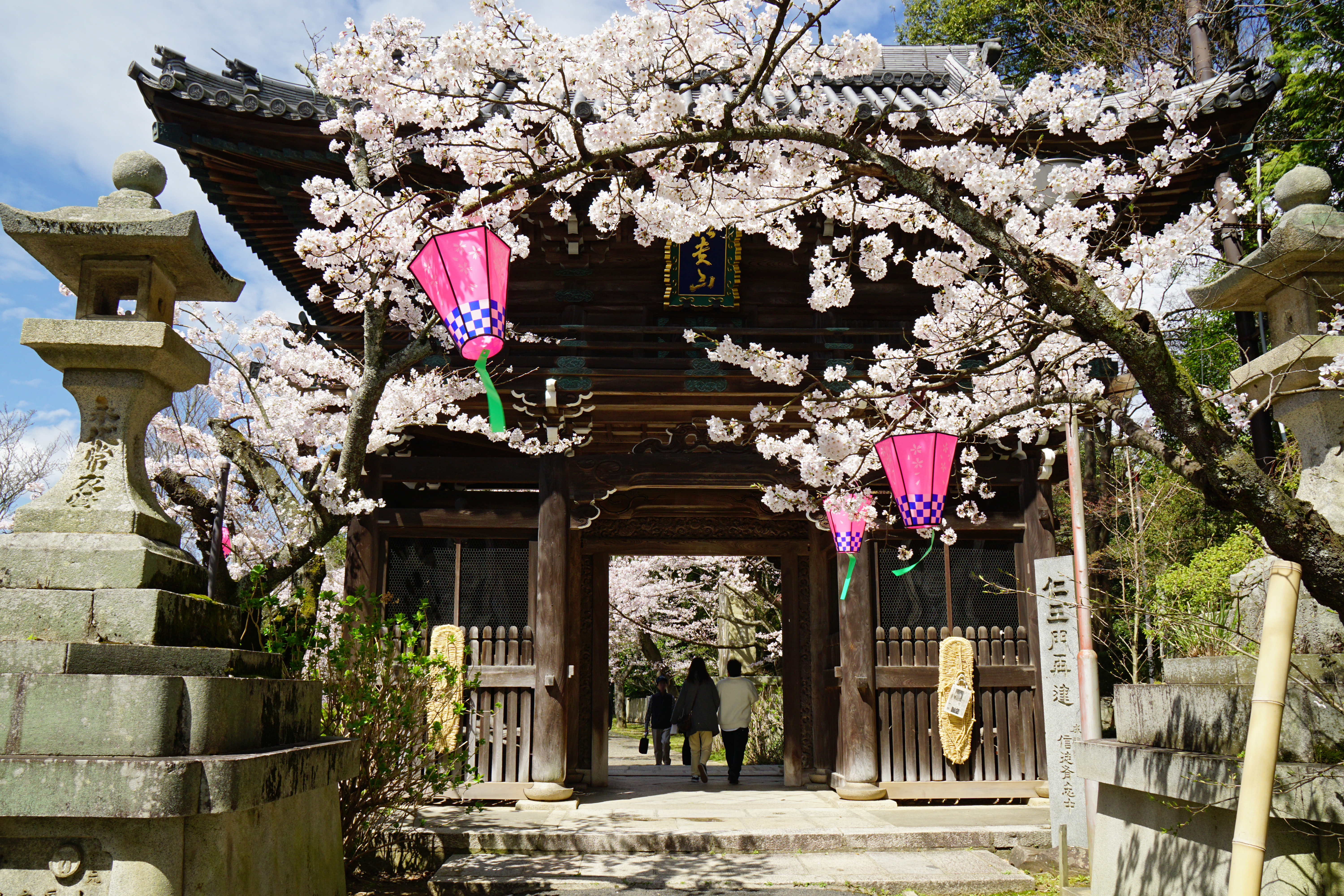 Chōgosonshi-ji in Heguri, Nara prefecture, Japan